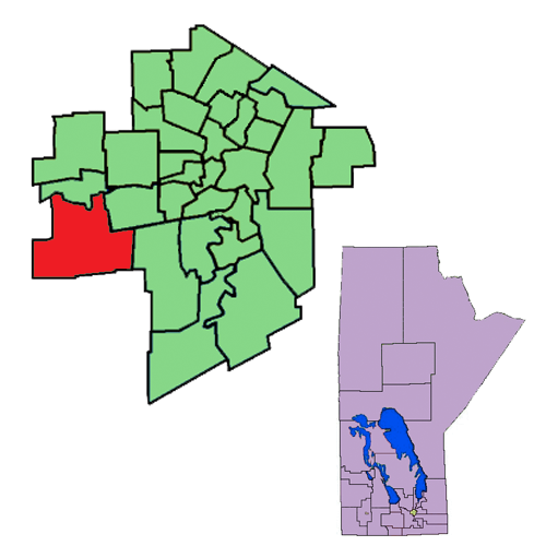 The 1999-2011 boundaries for the Charleswood electoral district highlighted in red